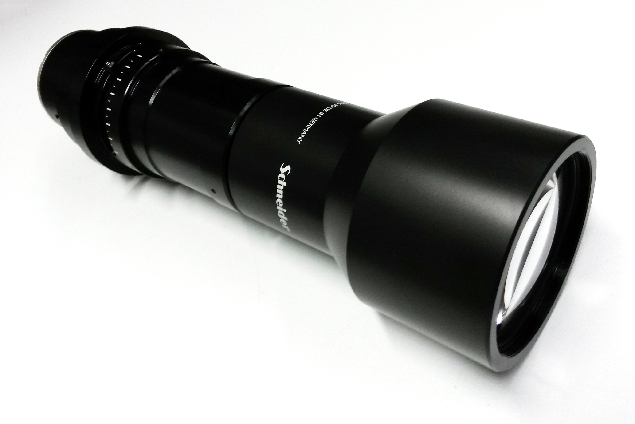 Bi-telecentric lens with c-mount.